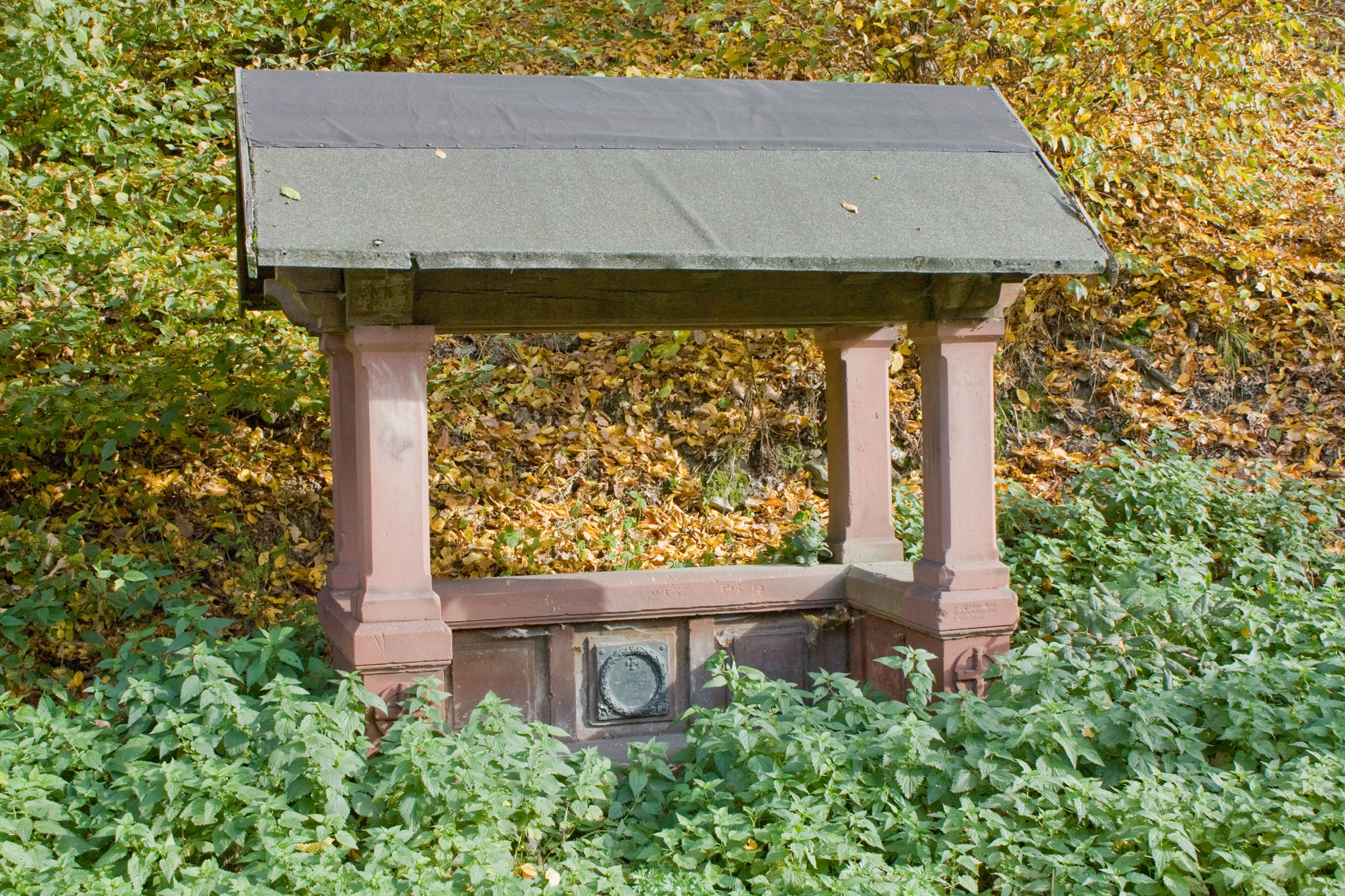 "Alexanders rest" is a canopied bench close to Bad Schwalbach, Hessen.